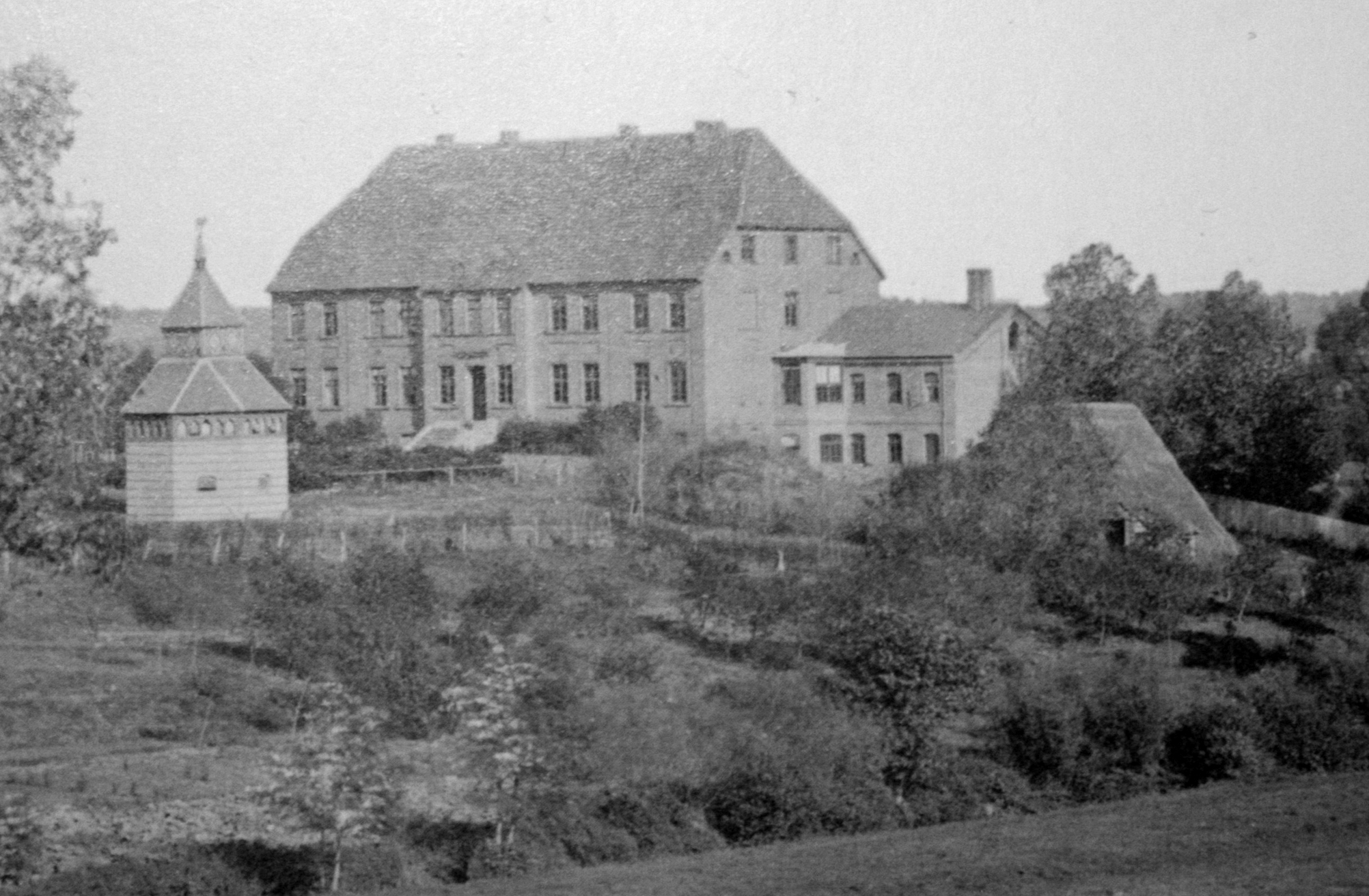 Fotografie des Gutshauses Basthorst bei Crivitz, Mecklenburg-Vorpommern, um 1870. Blick auf das Haus aus Richtung Süden.